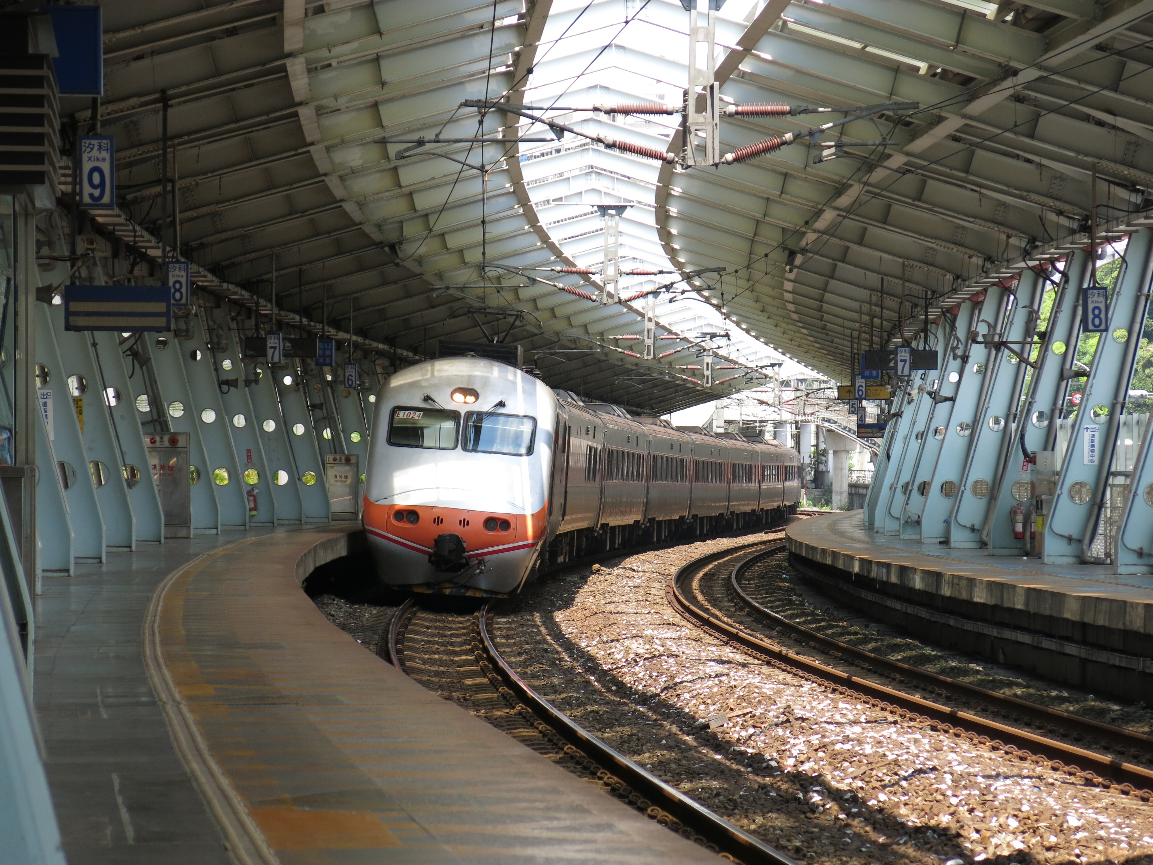 TRA E1024 in Xike Station 中文（台灣）: 臺灣鐵路管理局推拉式自強號電力機車頭E1024通過汐科車站第二月台。